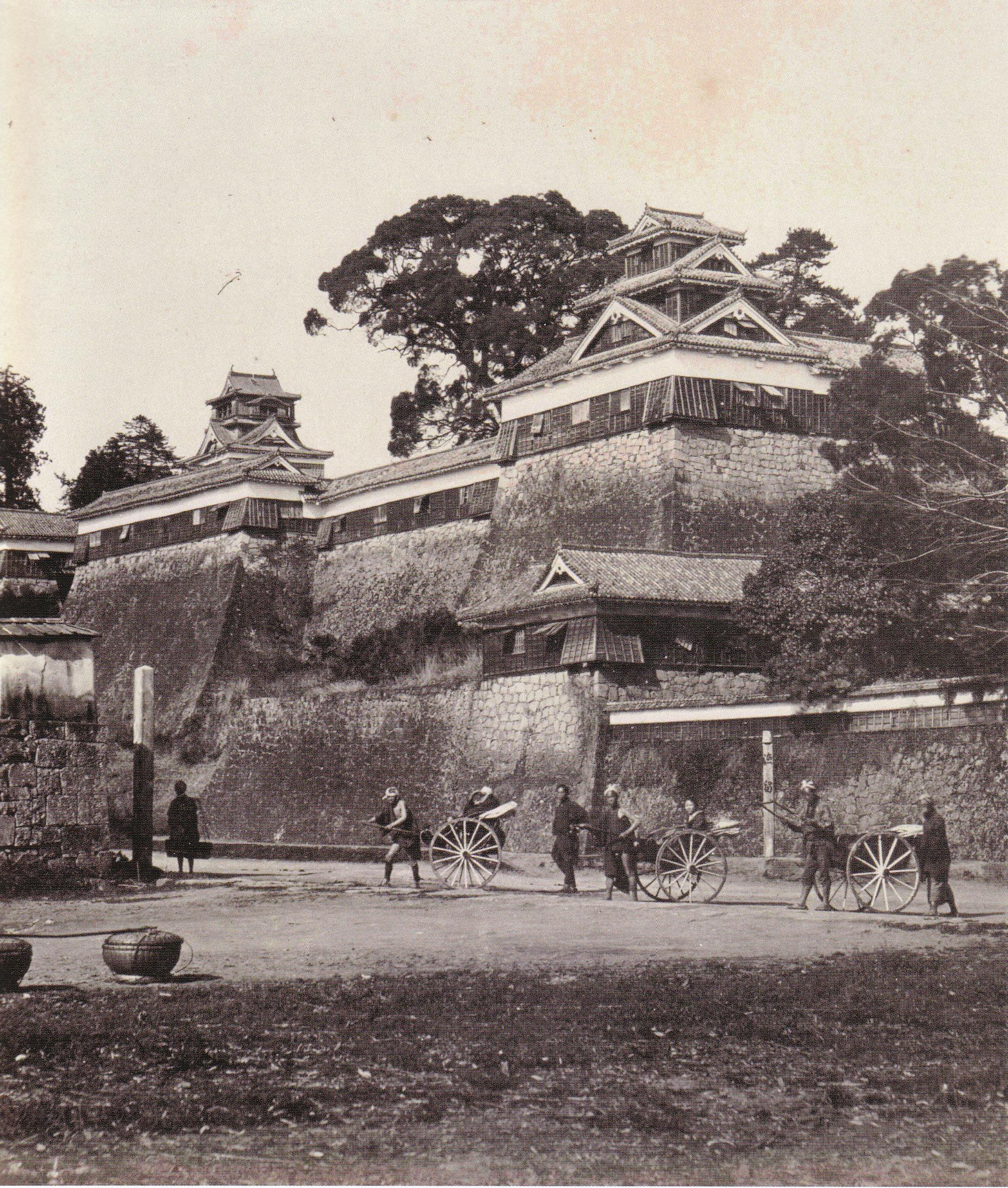 View from Bizenzaka.